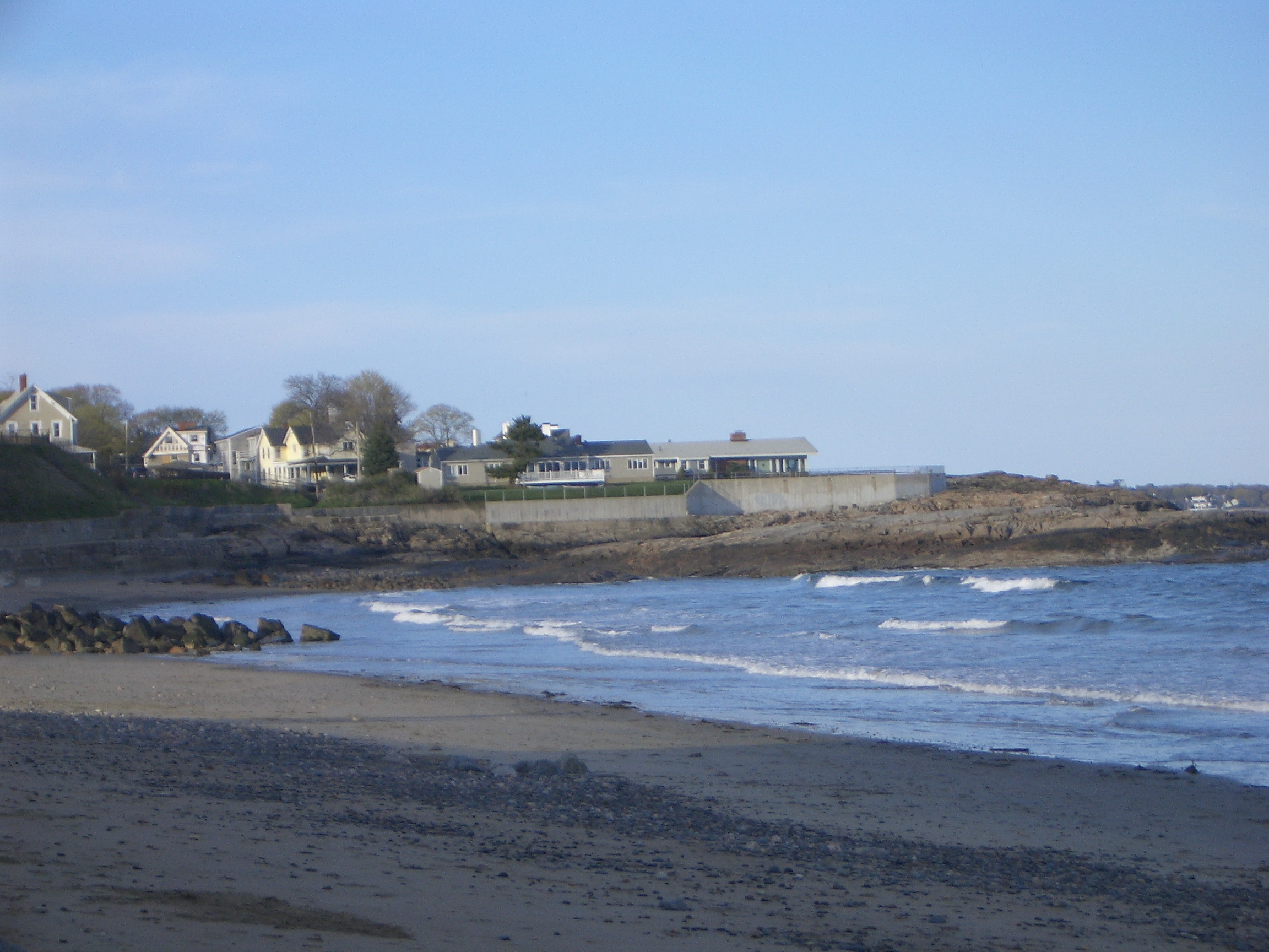 Preston Beach in Marblehead.